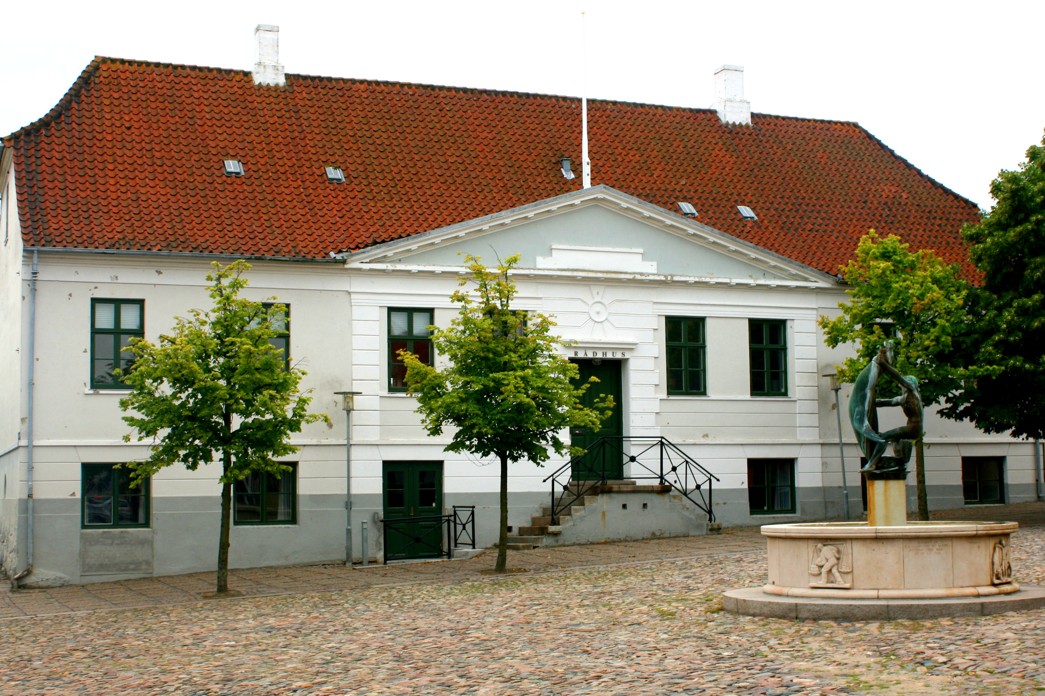 Townhall of Hjørring, Denmark built 1834, the main administration was moved in 1971 to Codanhus. The fountain was moved here around 2000. It was the former fountain on Springvandspladsen(~the fountain square [1] ↑